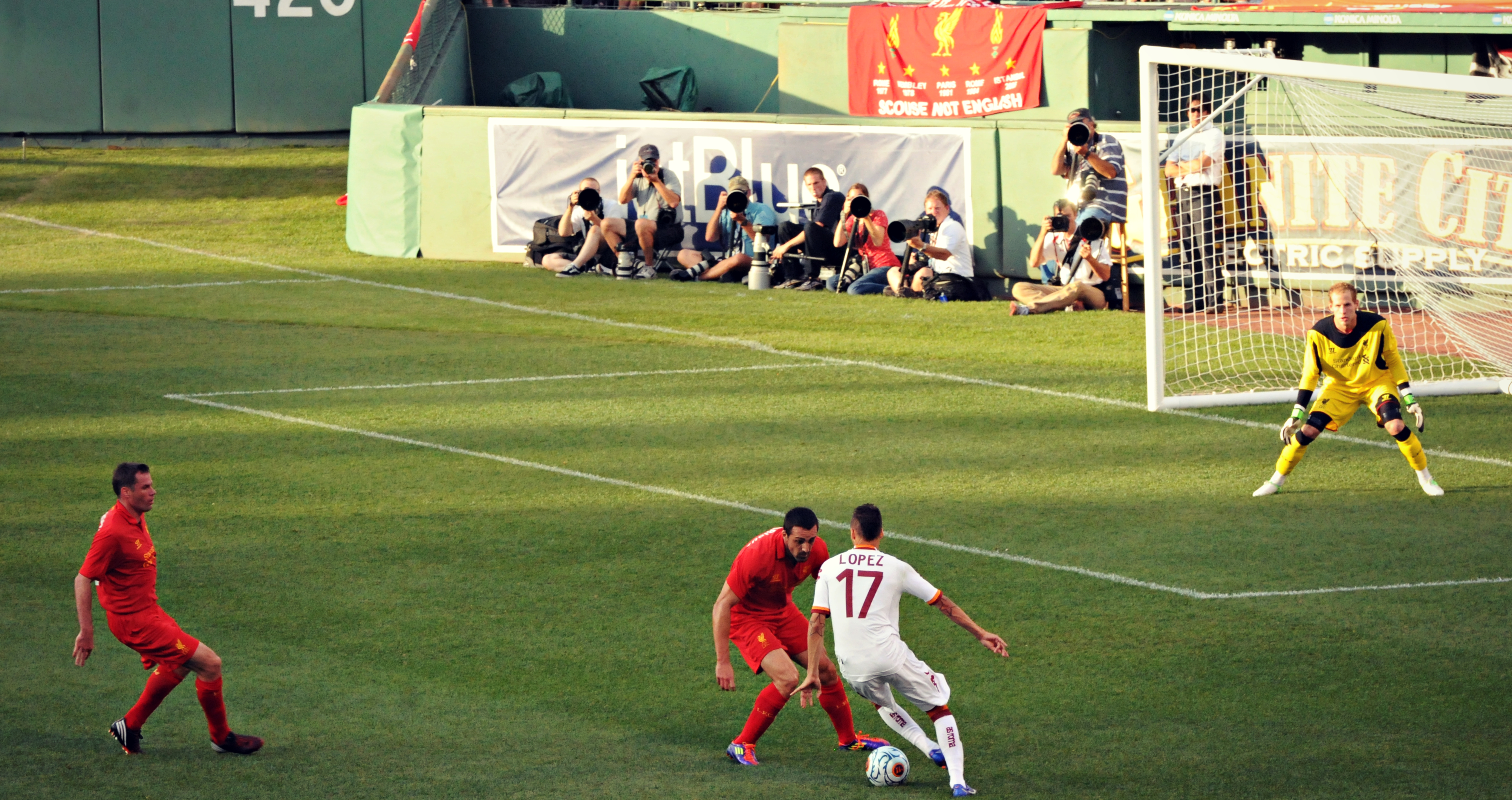 LFC vs Roma @ Fenway Park (Boston, Massachusetts)